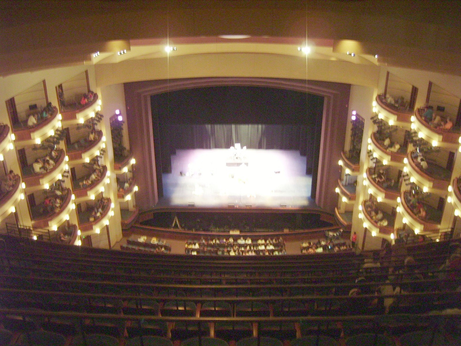 Interior of Ziff Ballet Opera House at the Performing Arts Center in downtown Miami, FL.